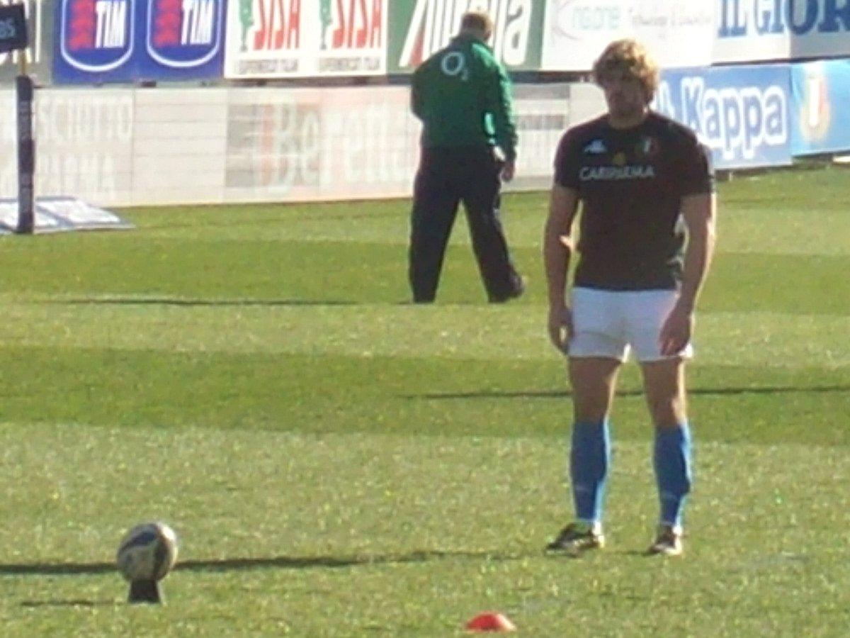 Italian rugby union player Mirco Bergamasco training before the the Six Nations match vs Ireland in Rome